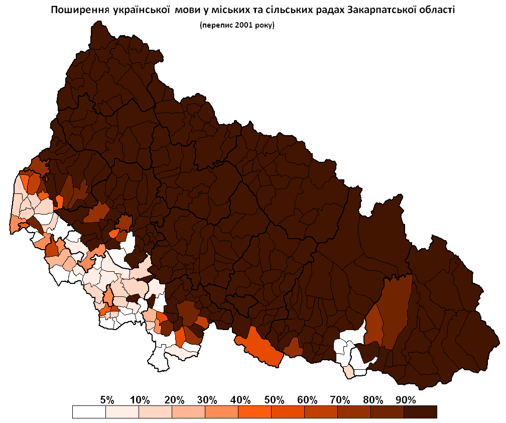 Percentage of ukrainian native speakers in Zakarpattia oblast according to 2001 census